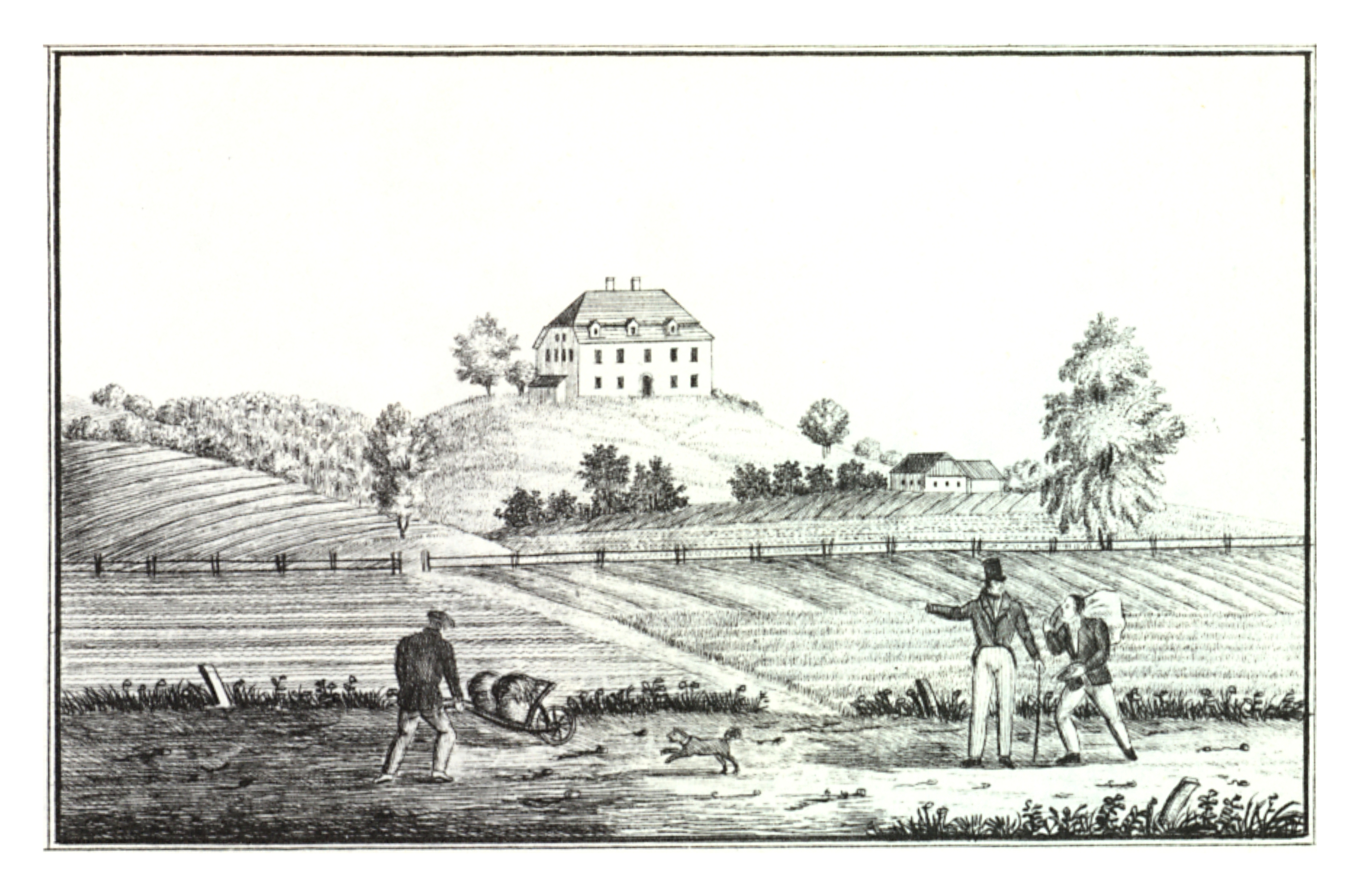 J. F. Kaiser - lithographirte Ansichten der Steyermärkischen Städte, Märkte und Schlösser Graz, 1825 Scanprojekt Community Projektbudget 2012 This scan or this PDF-file was created within the GLAM-project Bookscanning, supported by Wikimedia Germany and Wikimedia Austria as a part of the community-project to capture books, documents and pictures which are not eligible to copyright or for which the copyright has expired. This document describes or depicts an object which is located in Austria today. Send requests for uncompressed scans to Hubertl. This work is in the public domain in its country of origin and other countries and areas where the copyright term is the author's life plus 100 years or less. You must also include a United States public domain tag to indicate why this work is in the public domain in the United States. This file has been identified as being free of known restrictions under copyright law, including all related and neighboring rights.